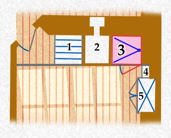 Amamcik (smal Turkish bath) in Princess Ljubica's Residence, Belgrade (diagram)